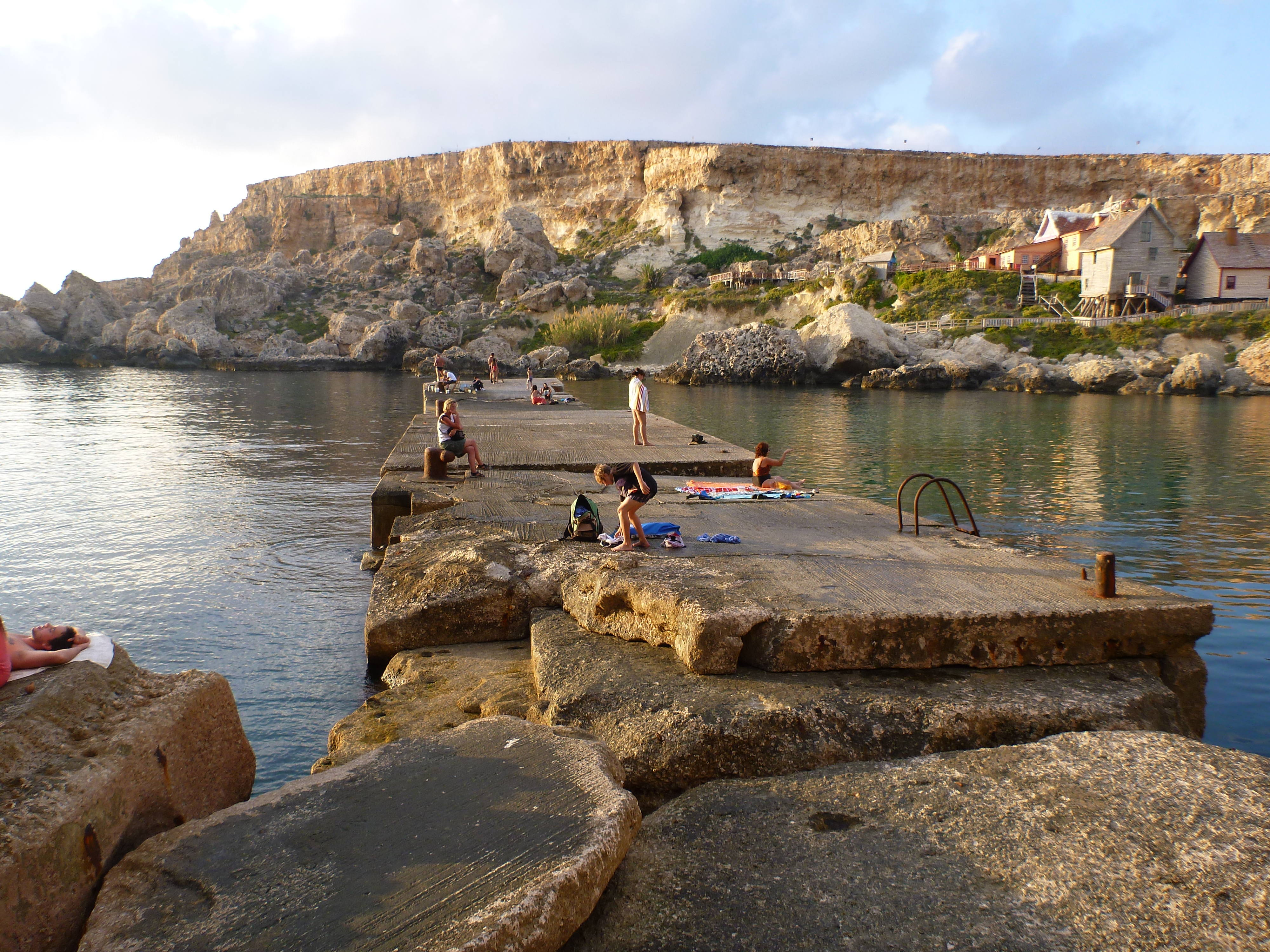 Old concrete Pier in Anchor Bay usefull for swimming and diving, right Popeye Village